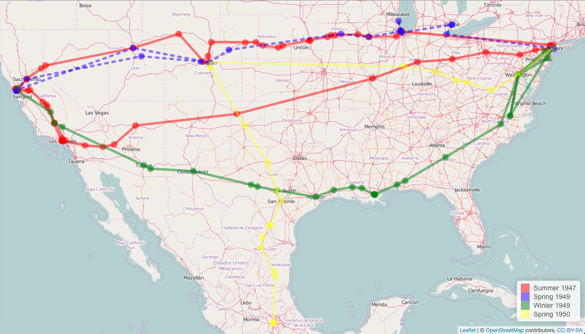 Kerouac's road trips described in On the Road. Largely based on Dennis Mansker's interactive maps [1] for the compilation of the cities.